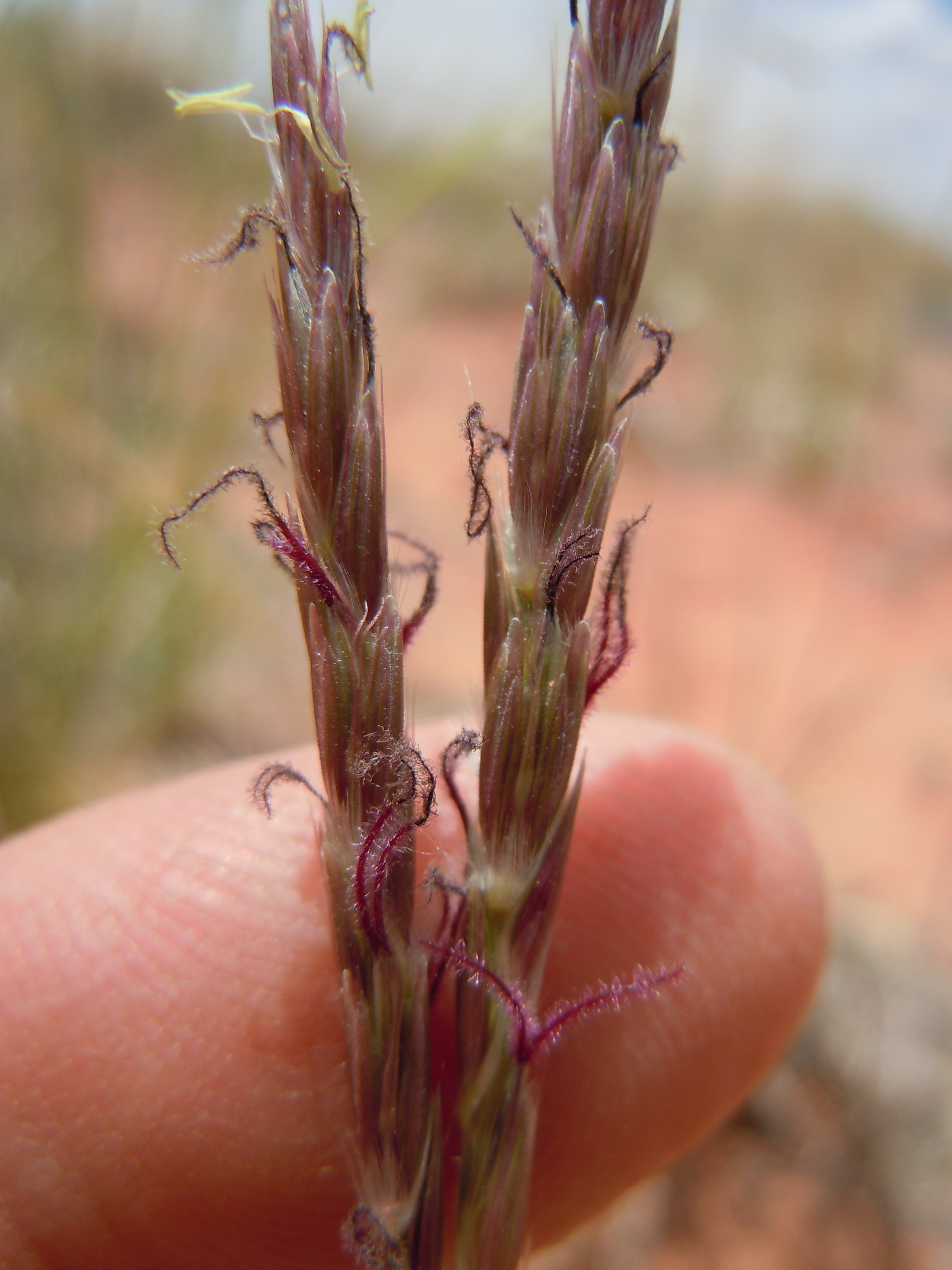 Whatever the disturbance history behind this open dry vegetation, it now seems to be dominated by few bunchgrass species.